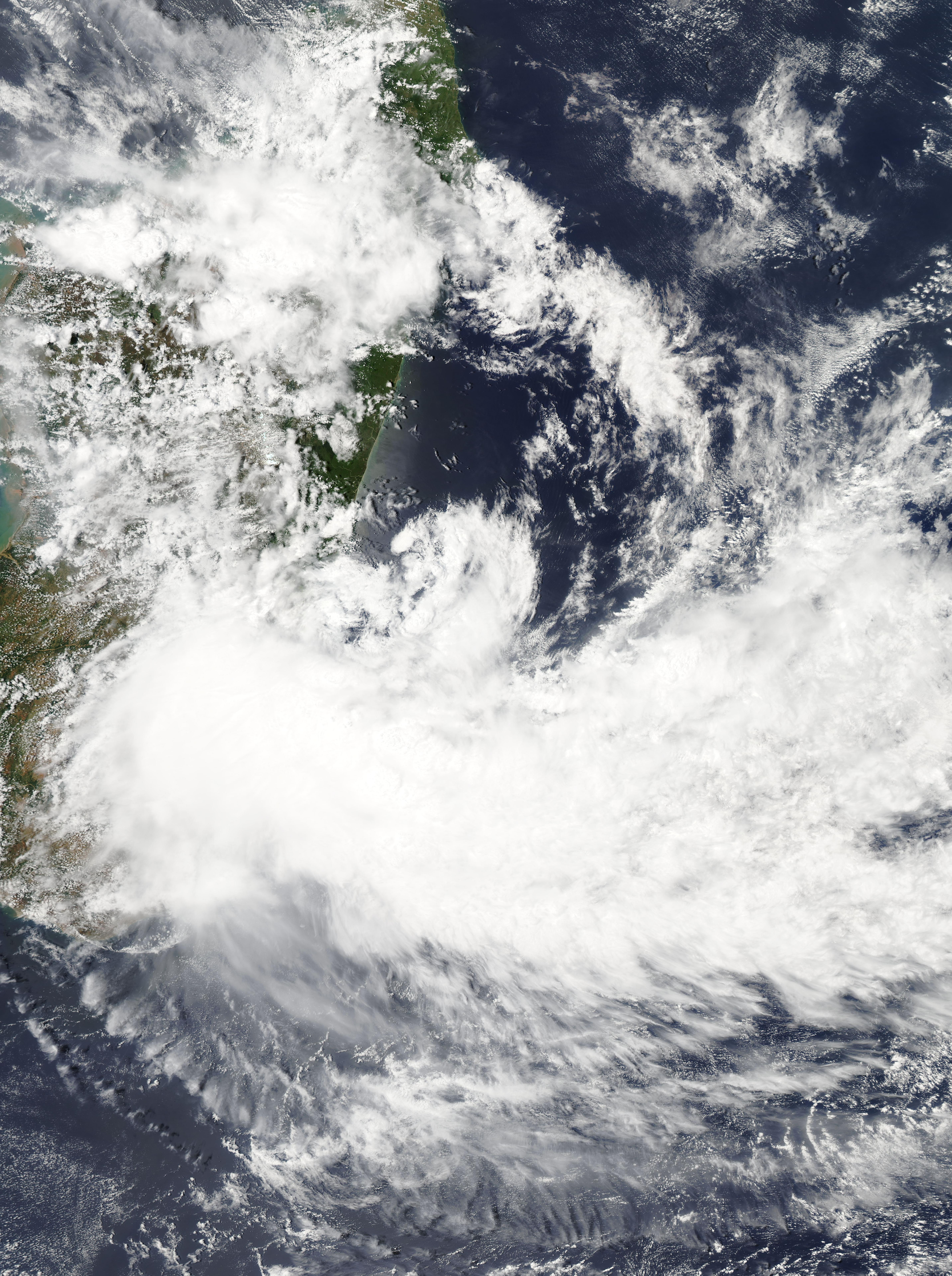 Cyclone Chedza exiting Madagascar on January 17, 2015